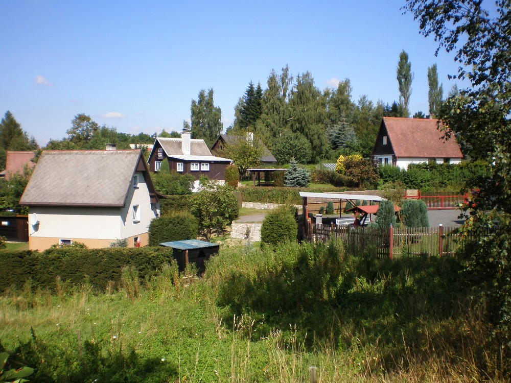 Skalka (Cheb), Cheb District, Czech Republic; rekreations buildings